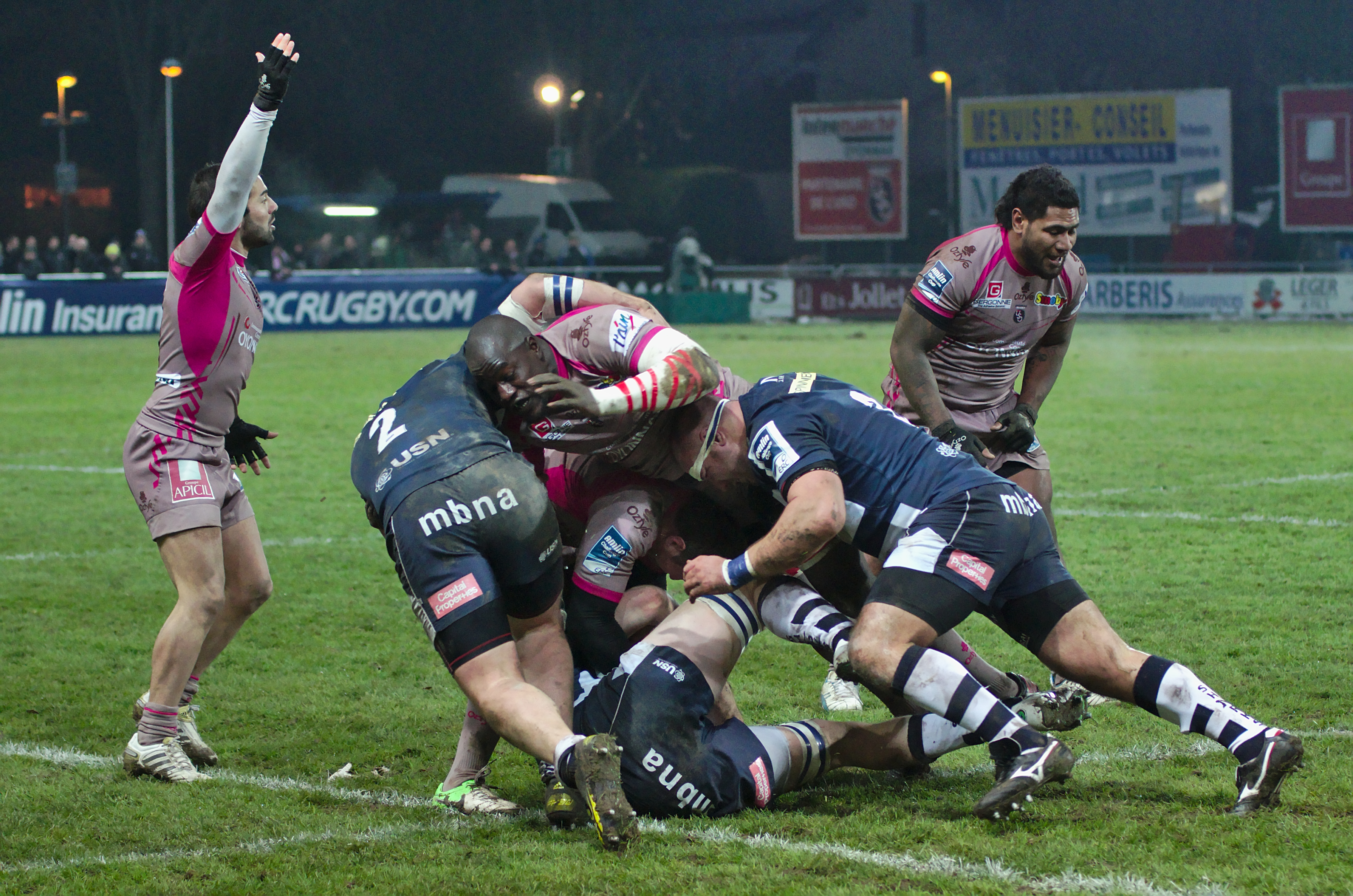 USO-Sale Sharks - 20131205 - Ruck